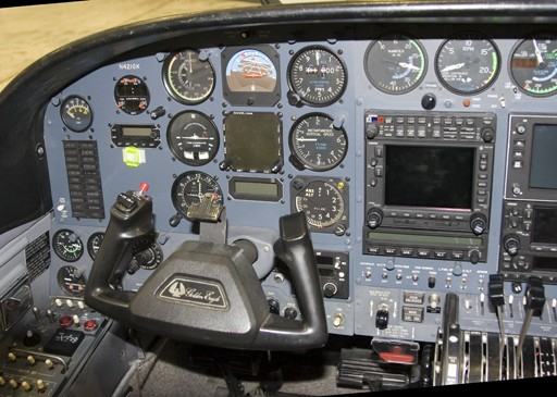 Cessna 421C Pilot's panel instrumentation